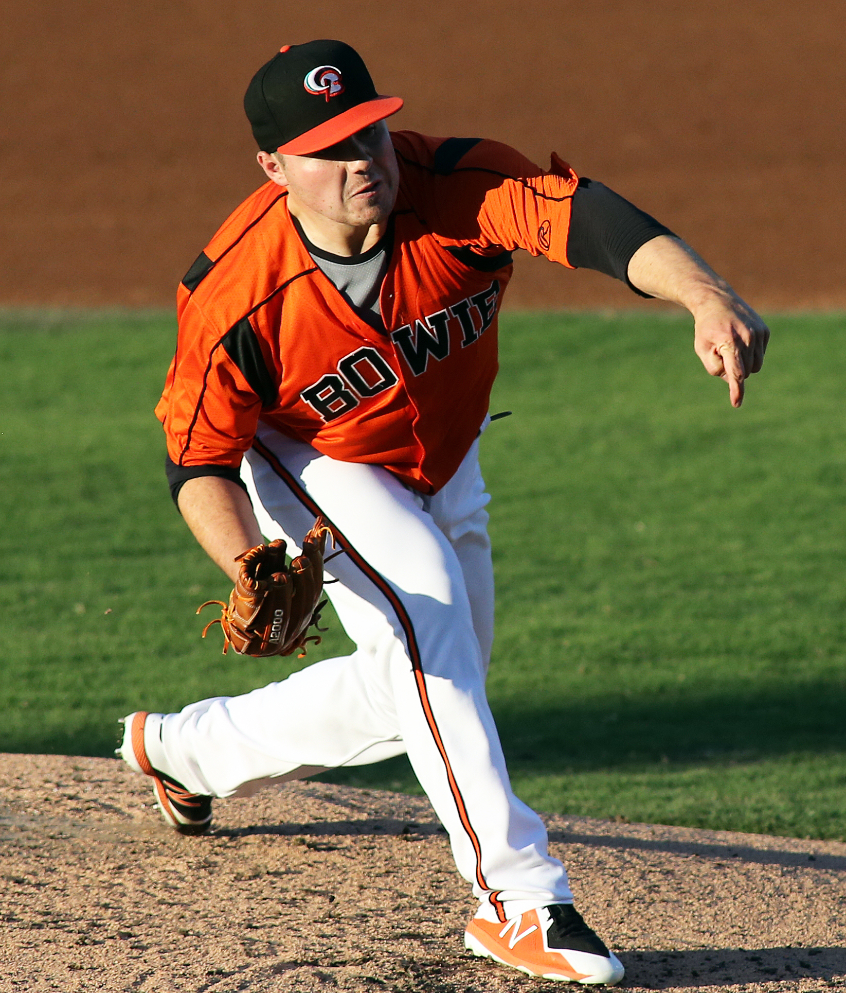 June 15, 2018: Bowie Baysox pitcher Keegan Akin (41) in action during Fort Meade night at Prince George's Stadium as the Bowie Baysox took on the Portland Sea Dogs. Photo by: Daniel Kucin Jr. For Baltimore Sun Media Group